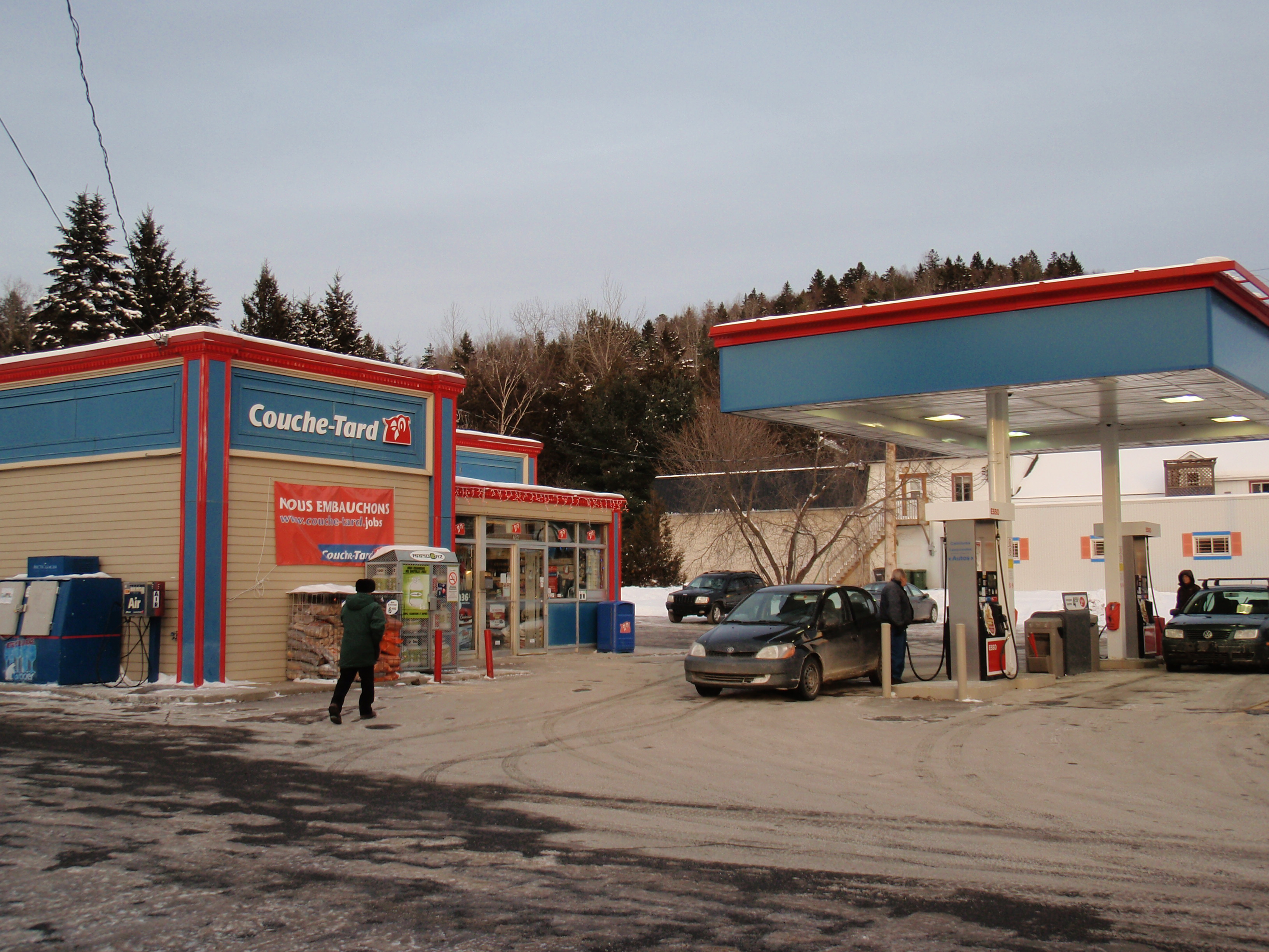 Quebec 2009